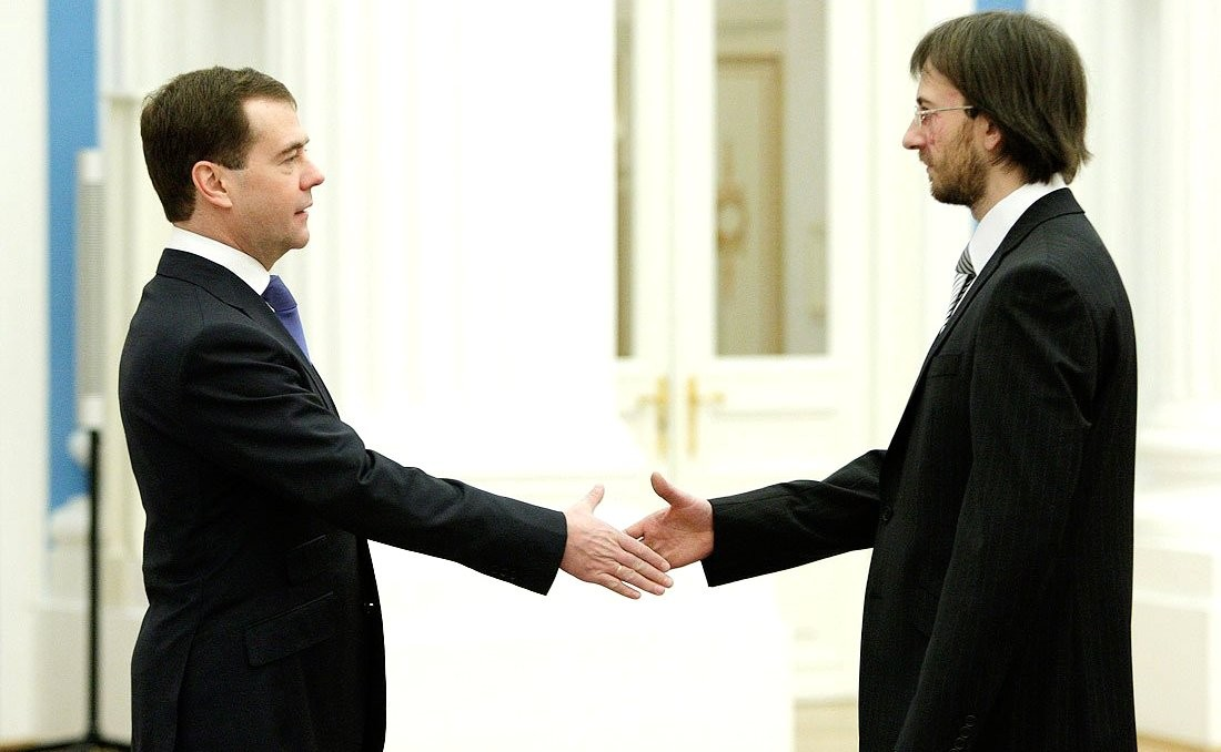 The award ceremony of the President of the Russian Federation in Science and Innovation for Young Scientists for 2009. Alexey Bobrowski awarded for work on the creation of liquid crystal polymers for information technology.